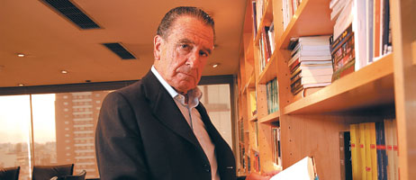 simple picture of eduardo eurnekian